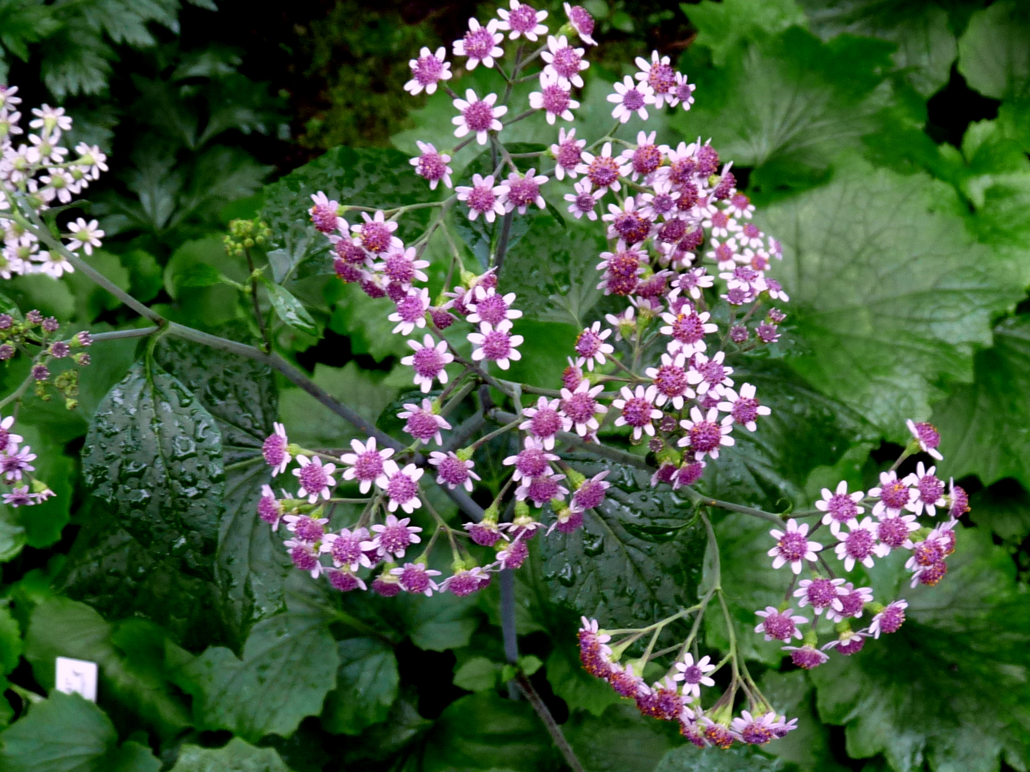 Pericallis papyracea at the ÖBG Bayreuth